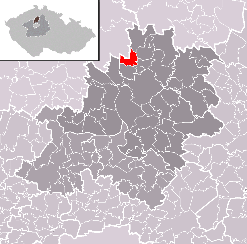 Location of Tupadly municipality within Mělník District and administrative area of Mělník as a Municipality with Extended Competence.